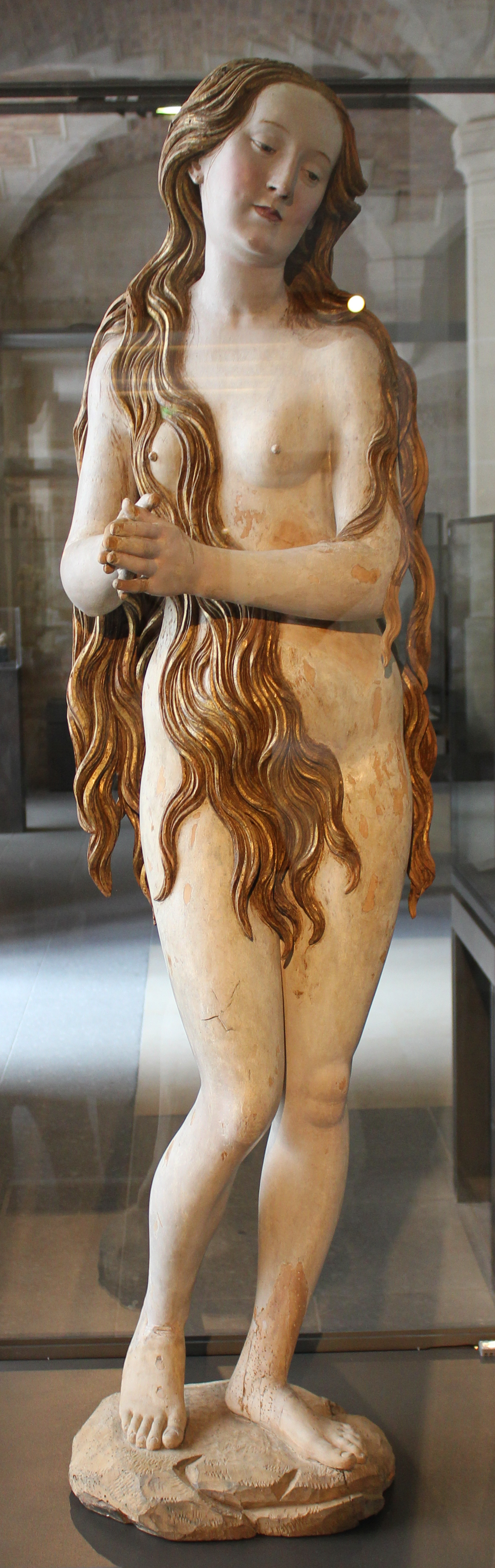 Mary Magdalene. Lime tree wood and polychromy, 16th century. Part of the feet were restored in the 19th century.